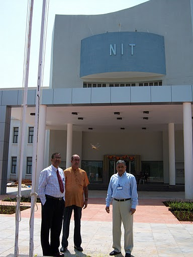 admin